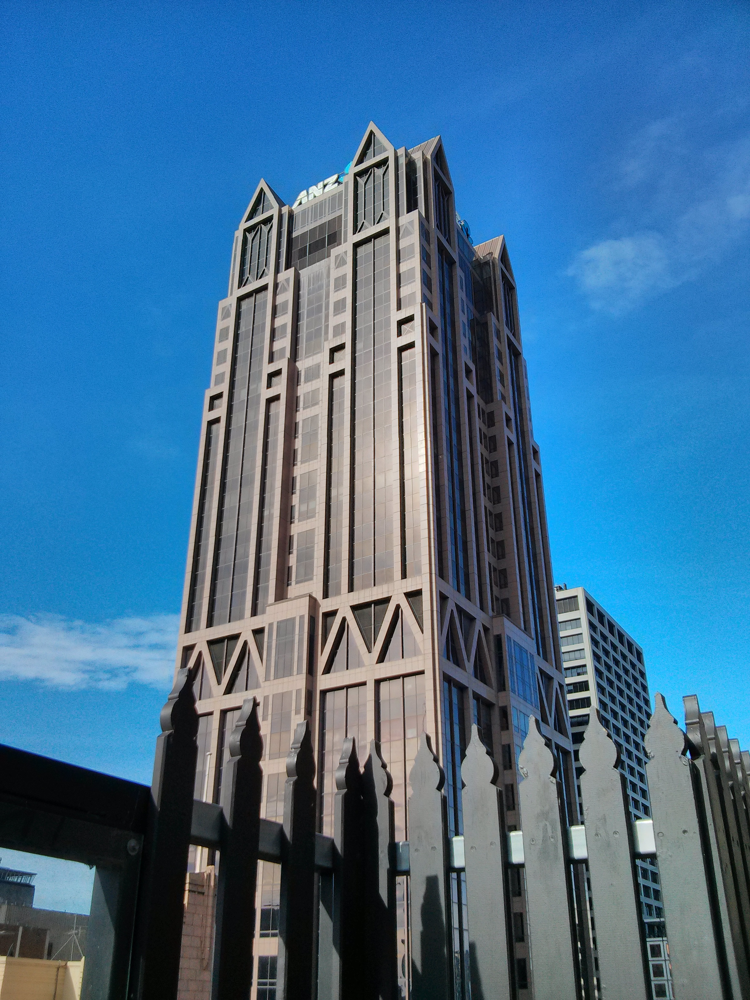 The ANZ 'Gothic tower' as viewed from the roof garden at 131 Queen St.